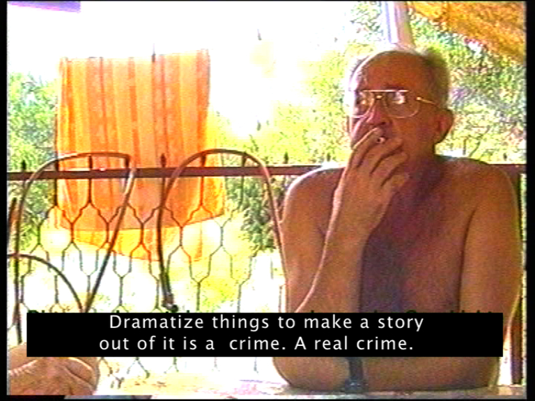 Still of the film Ground Control by Adnan Softic. It shows the father of the film maker in Bosnia, sitting on the terrace. Quoting him saying: "Dramatize things to make a story out of it is a crime. A real crime."